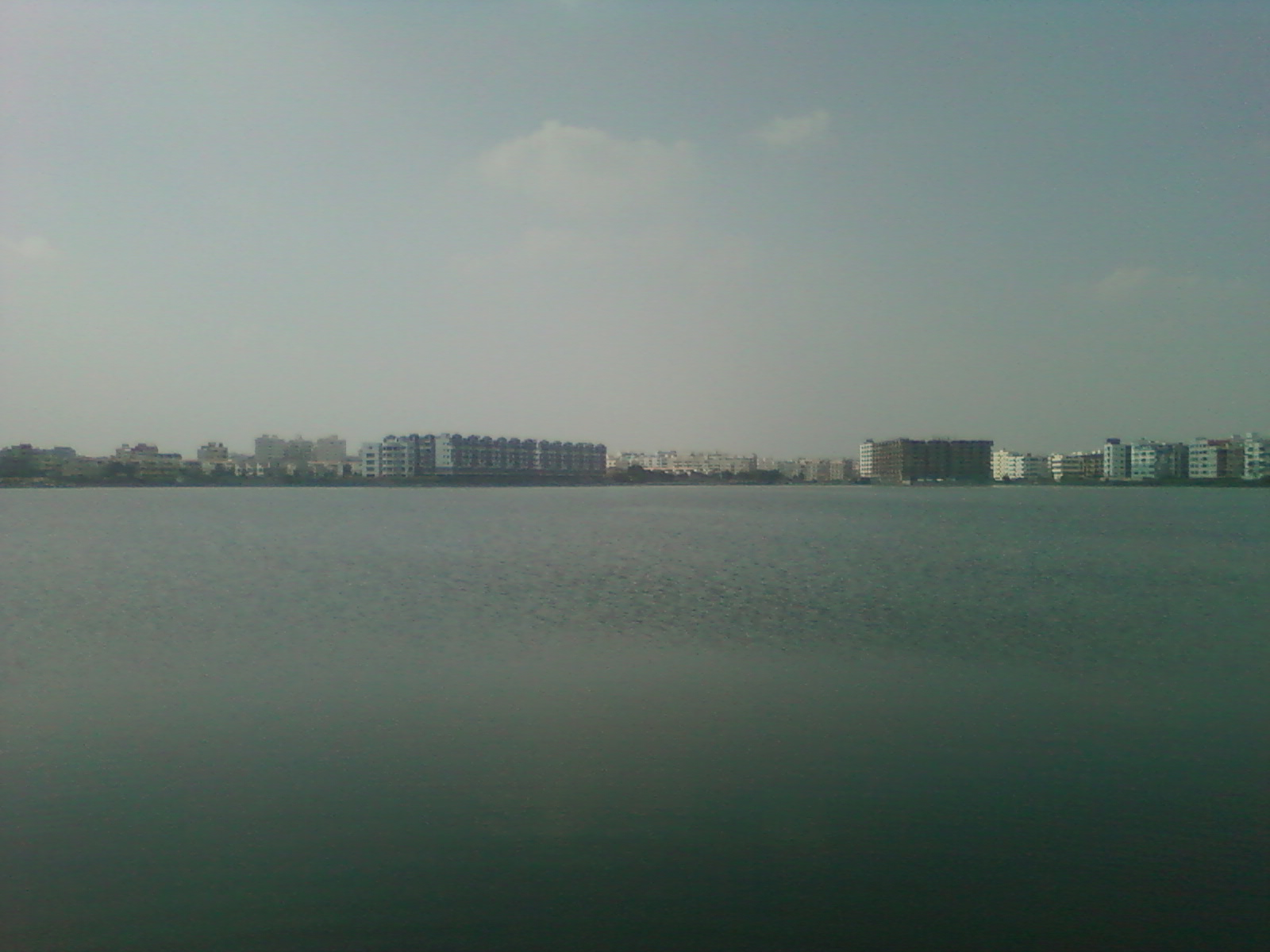 Pragatinagar lake in Ranga Reddy district